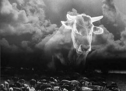 A still from Eisenstein's General line.